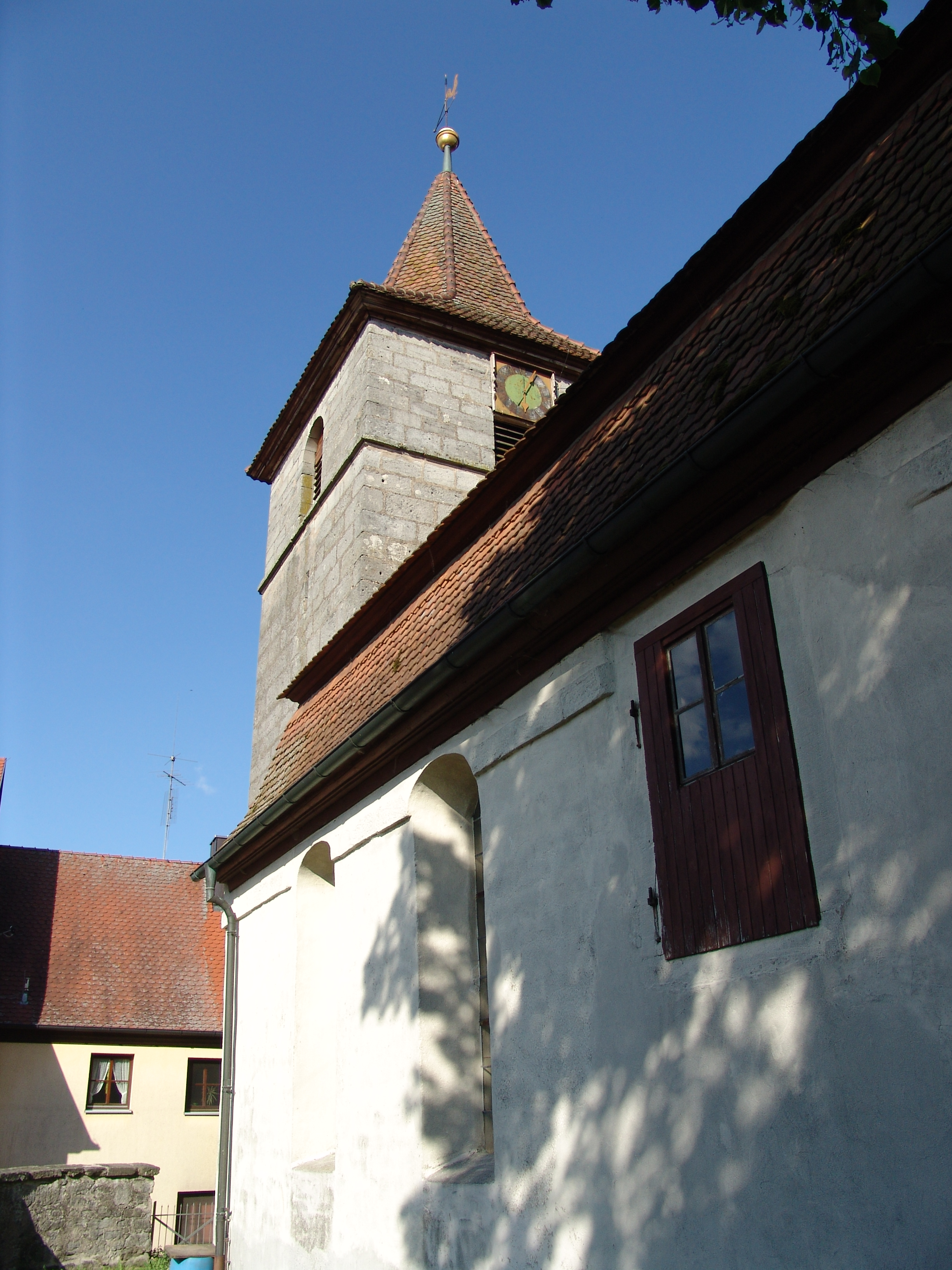 evang.-luth. Kirche St. Katharina in Forst